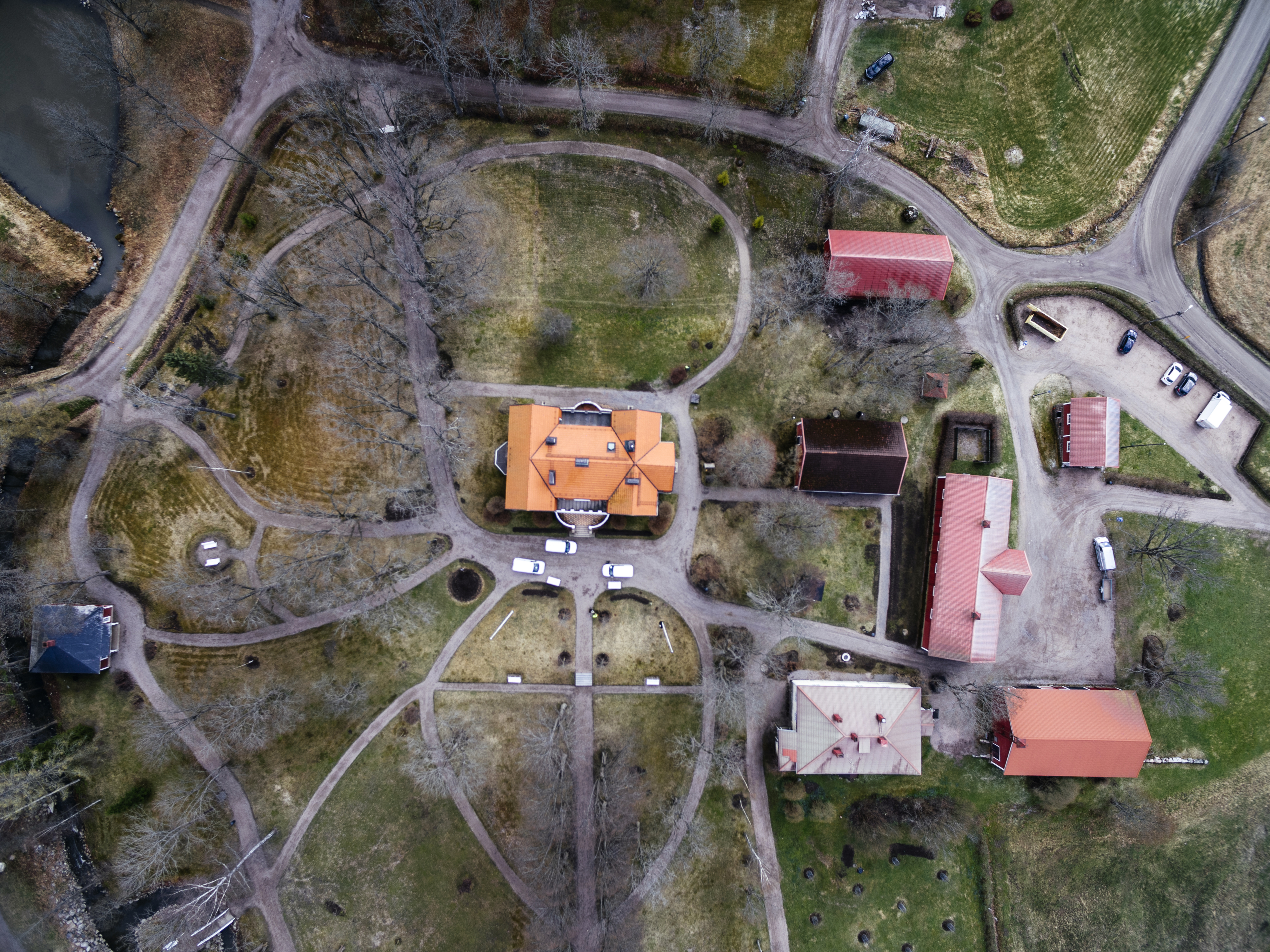 Håkansböle manor in Vantaa on 11 May 2018.